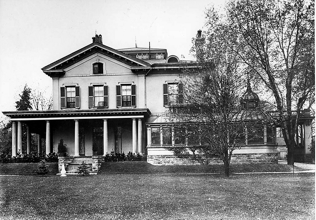 Pendarves was the home of Frederick William Cumberland, who built it in 1860 and lived there until 1881. In 1912-15, it was the official residence of the Lieutenant Governor of Ontario. It is located at 33 St. George Street, north of College Street, in Toronto, Canada. Pendarves – Cumberland House